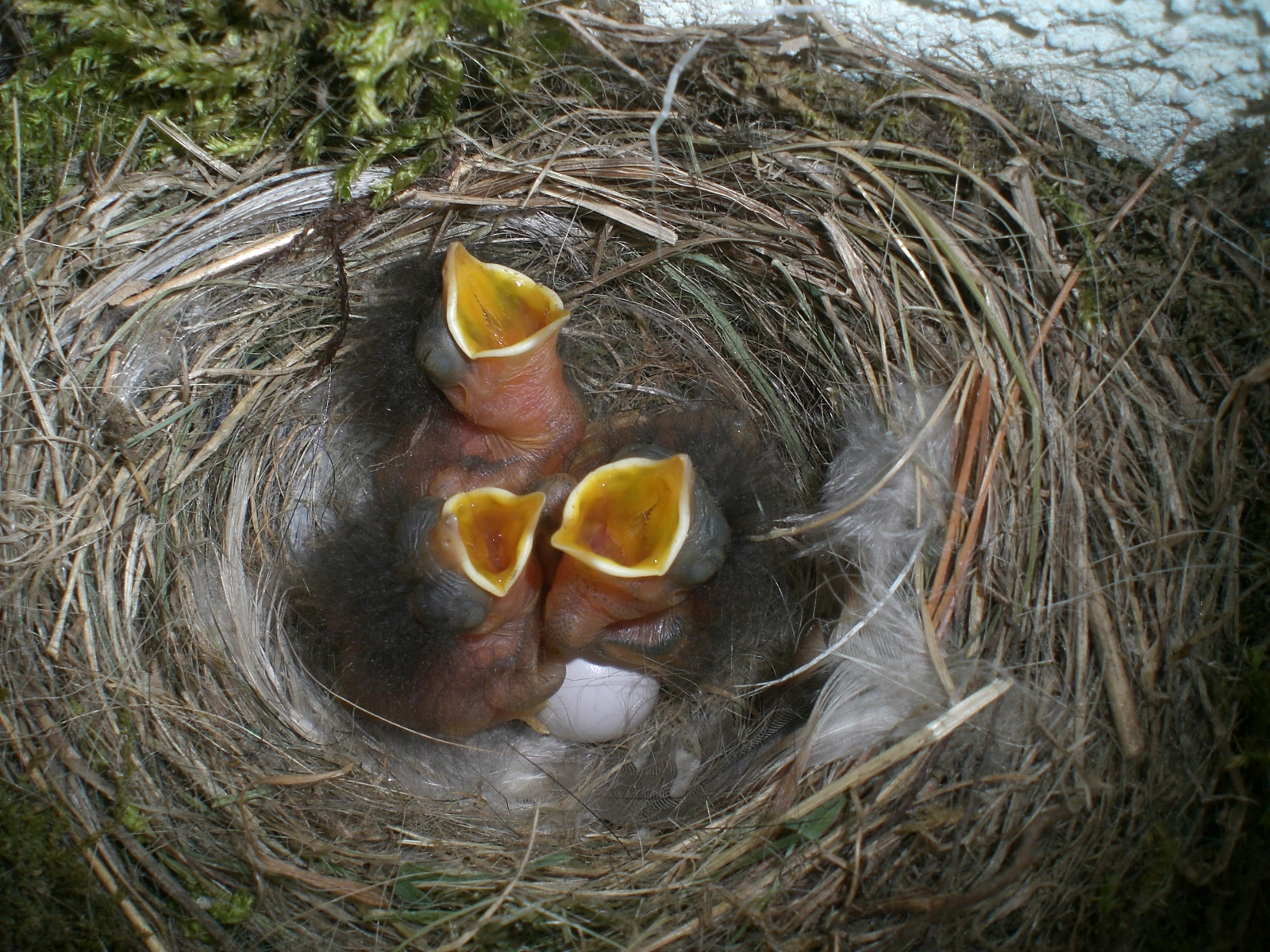 Naked squabs from Black Redstart, waiting for food